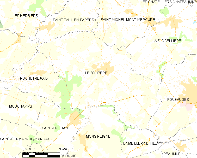 Map of French municipality Le Boupère